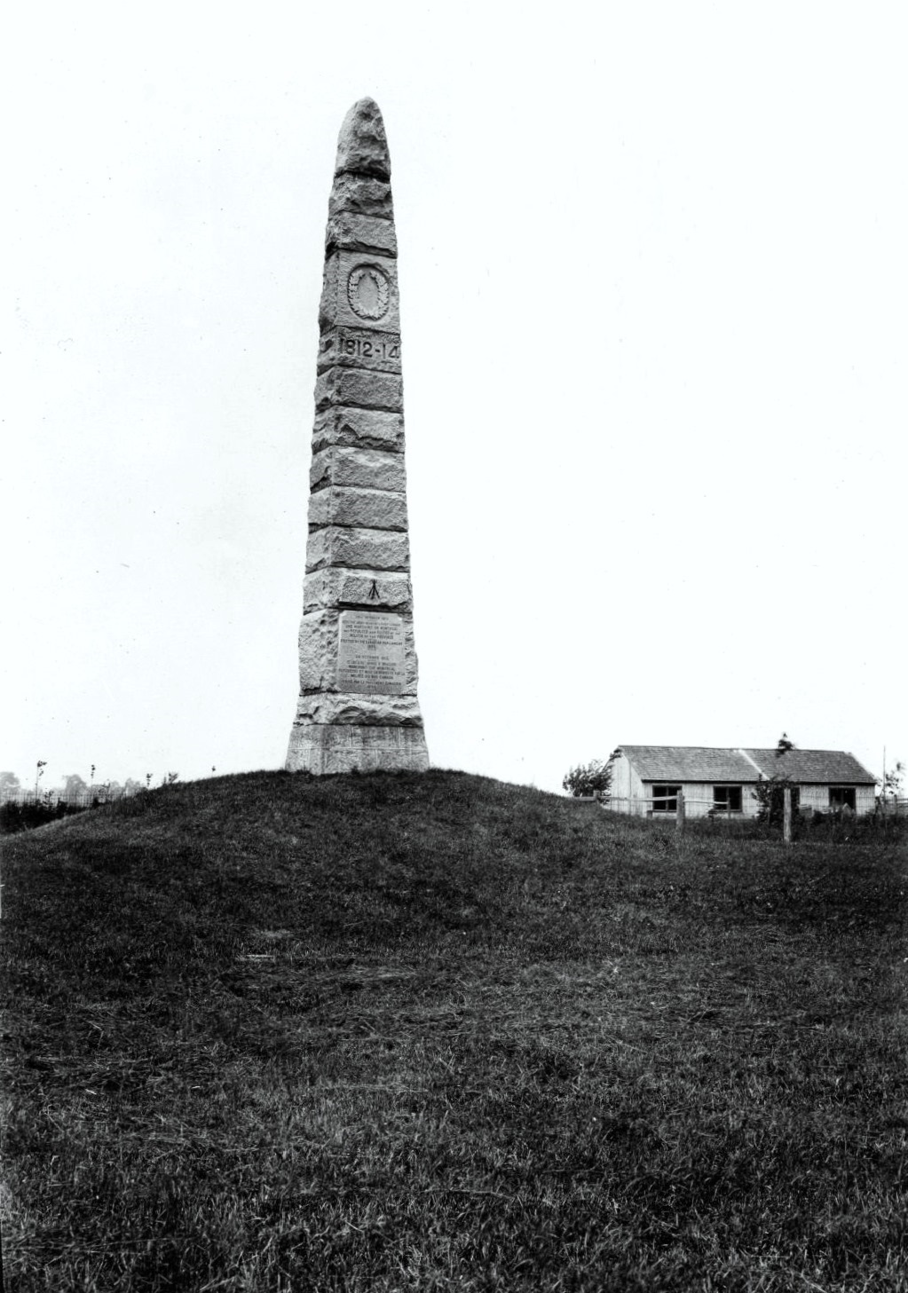 Monument for the Battle of the Châteauguay (1812-1814 war)